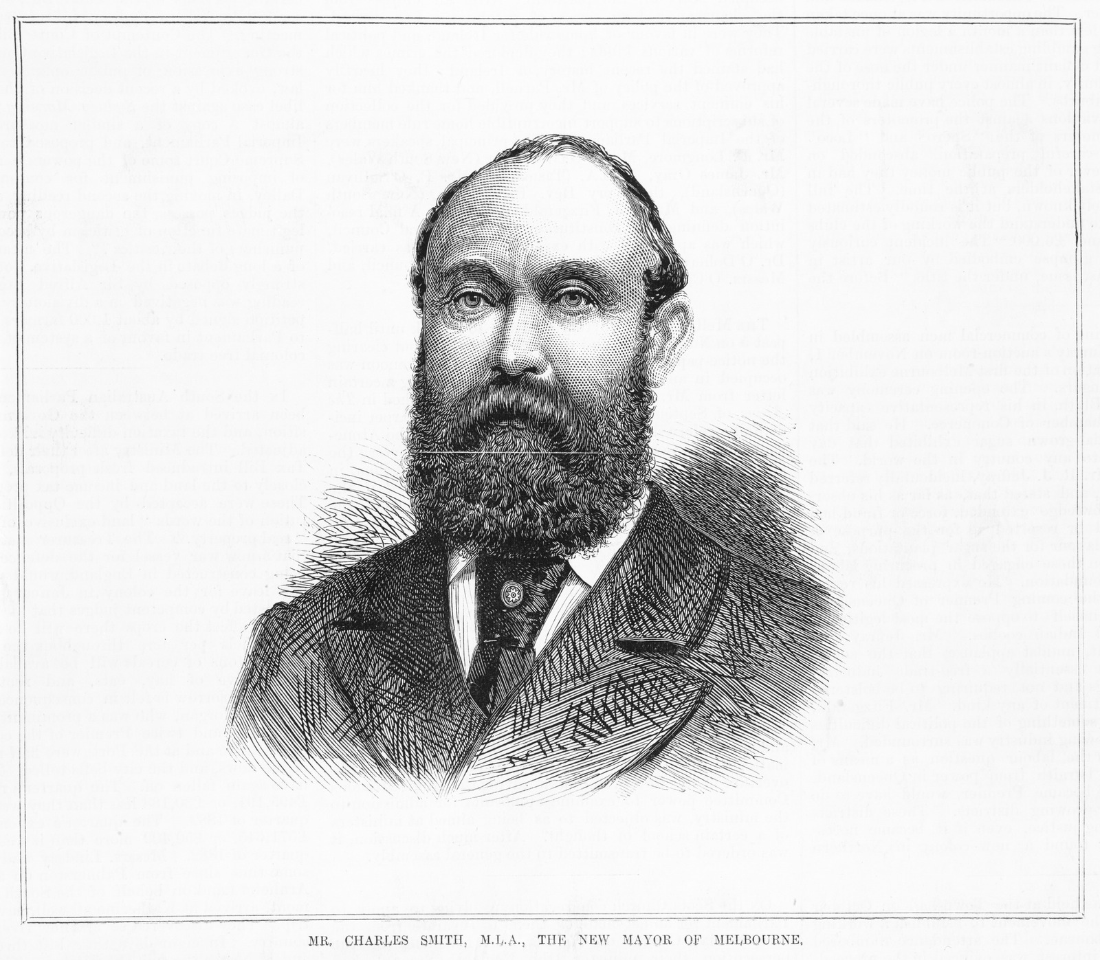 Mr. Charles Smith, M.L.A., Lord Mayor of Melbourne, 1883.